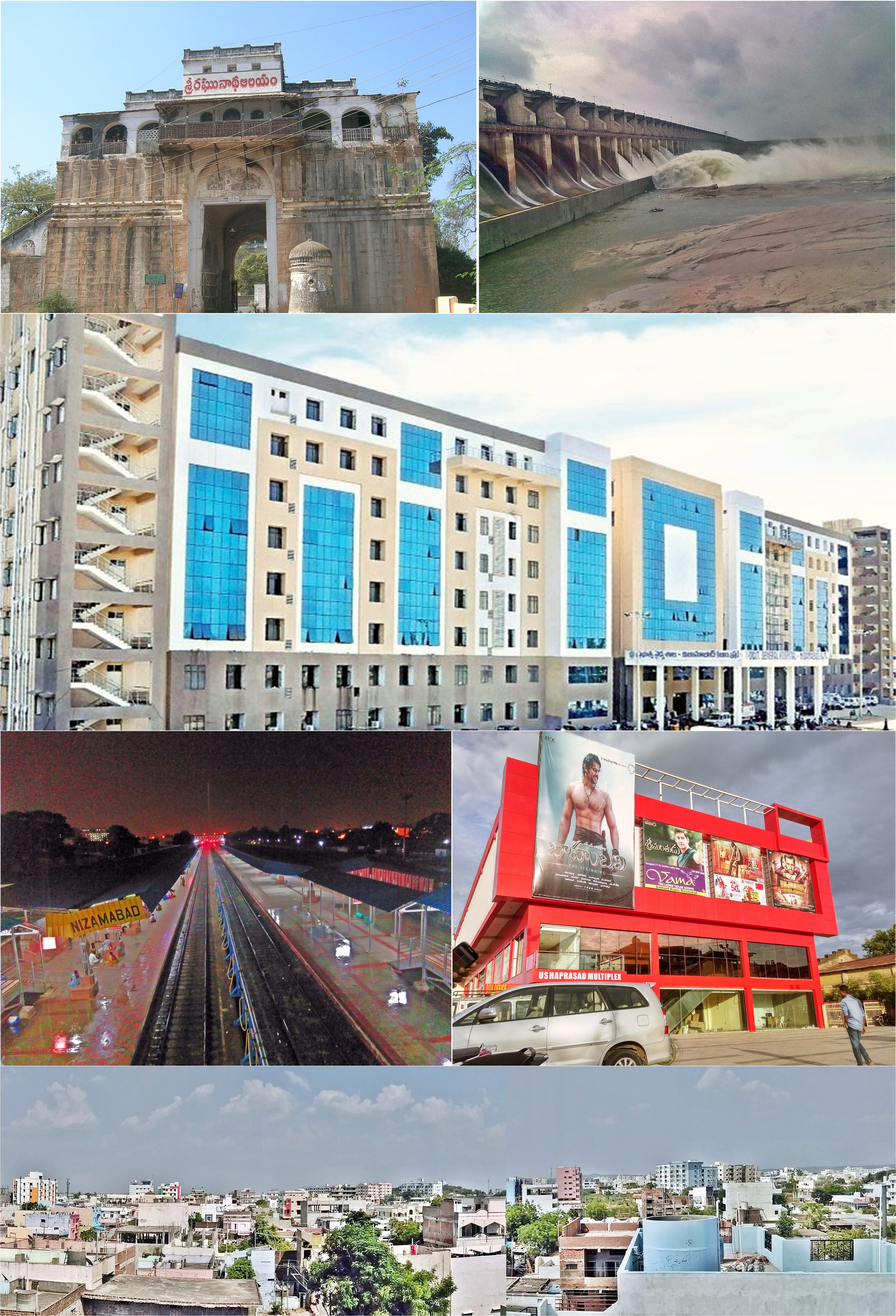 Montage of Nizamabad city